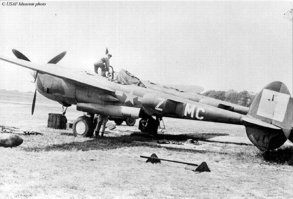 P-38 Lightning of the 20th Fighter Group, Kings Cliffe airfield, England. This P-38 Lightning MC-Z was flown by my father, Glenn Martin Webb until it was replaced by a P-51 Mustang with the same MC-Z lettering. Both ships were named Glengary Guy for Glenn (Dad), Gary (my brother), and Guy (me). The right side cowling read Jackie (my mother). Dad was killed in a similarly named P-51D on December 7, 1951 in Amarillo, Texas. The name Julie (my sister) was added after Jackie on August 27, 1951. Julie was 3 months old when Dad perished.